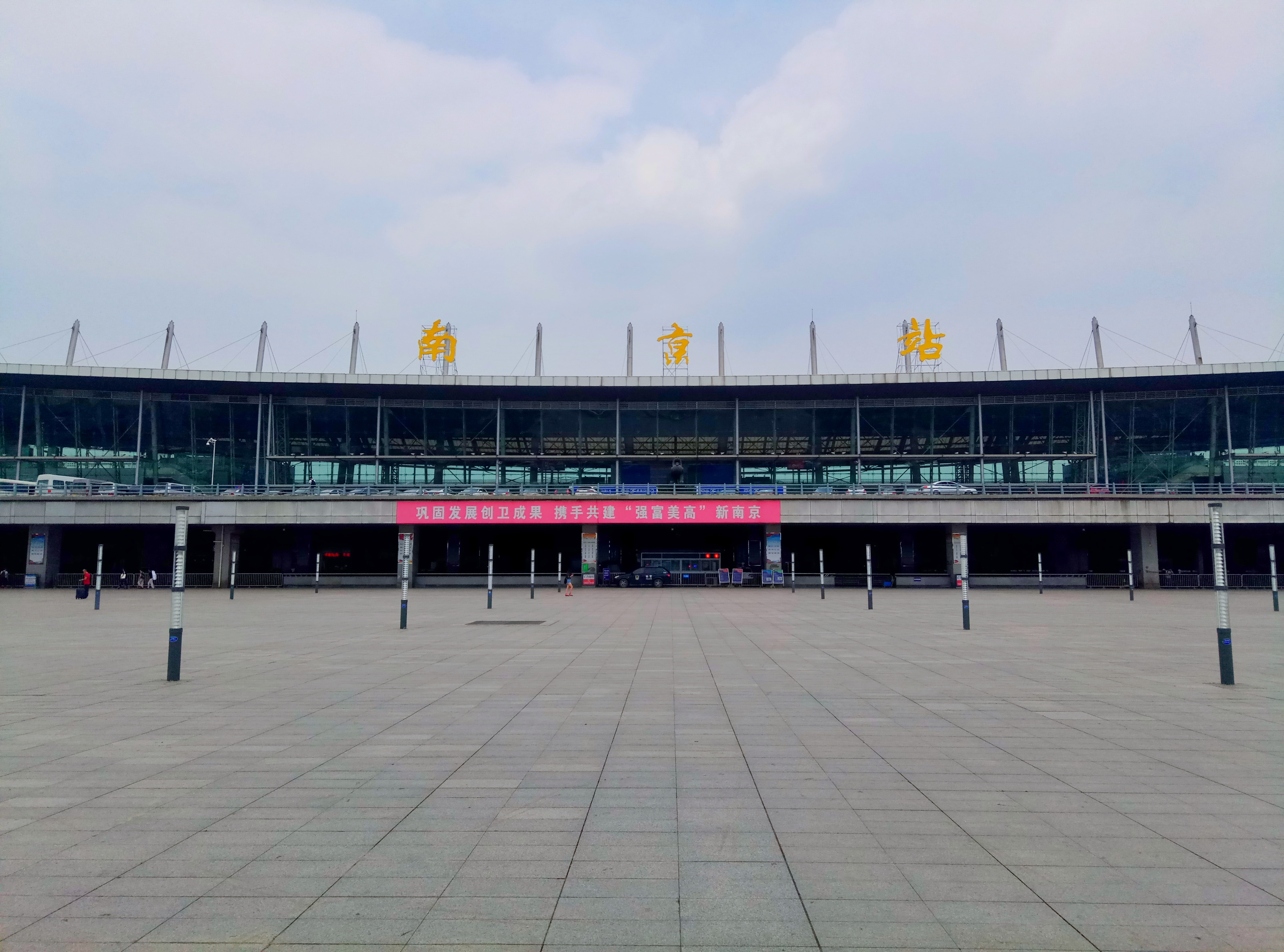 Nanjing Railway Station South